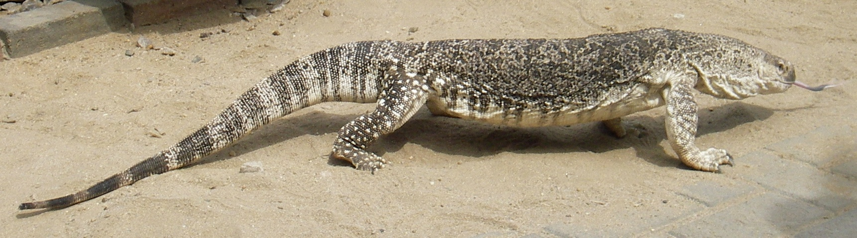 Varanus exanthematicus